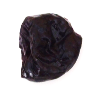 Dried prume icon